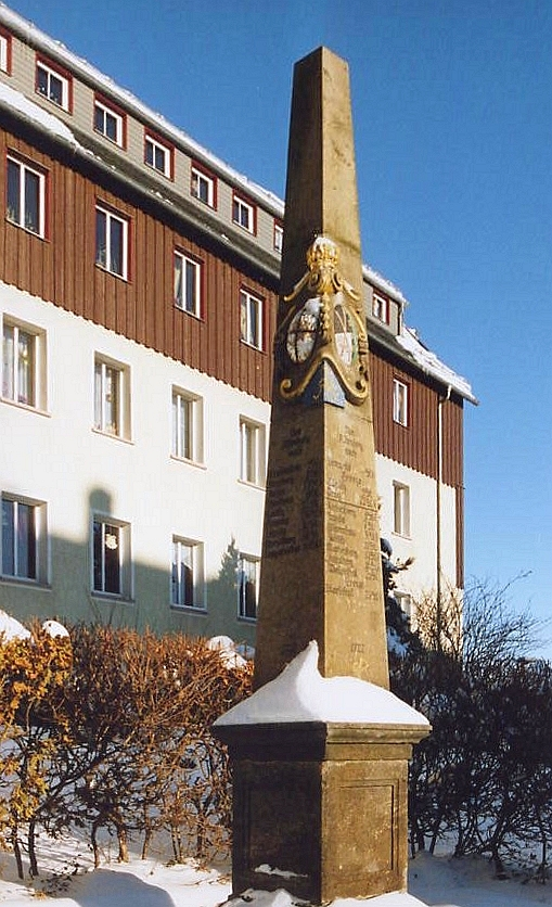 Altenberg: electoral saxonian postmile-stone from 1722.